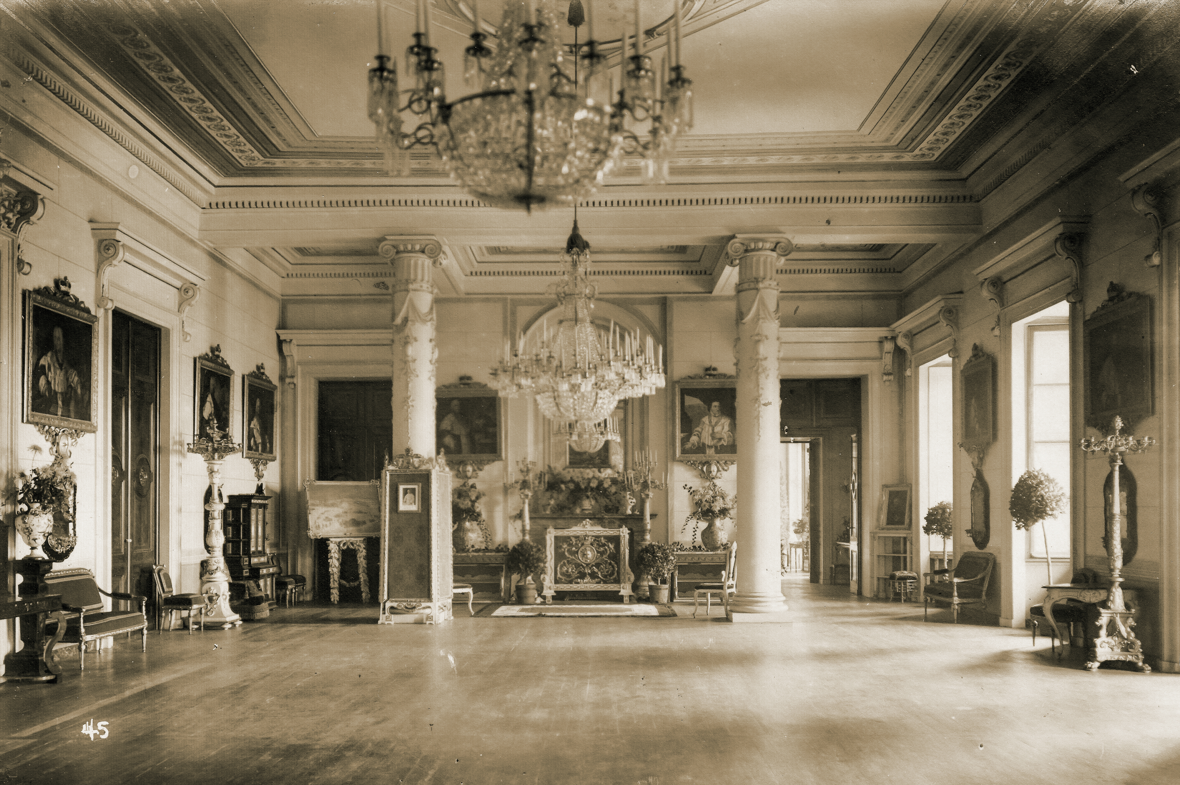 The throne room in the Electoral Palace in Koblenz, photographed 1920 on occasion of the wedding of a member of the American Forces in Germany. The throne room was destroyed in 1944 and was not rebuild after the Second World War.